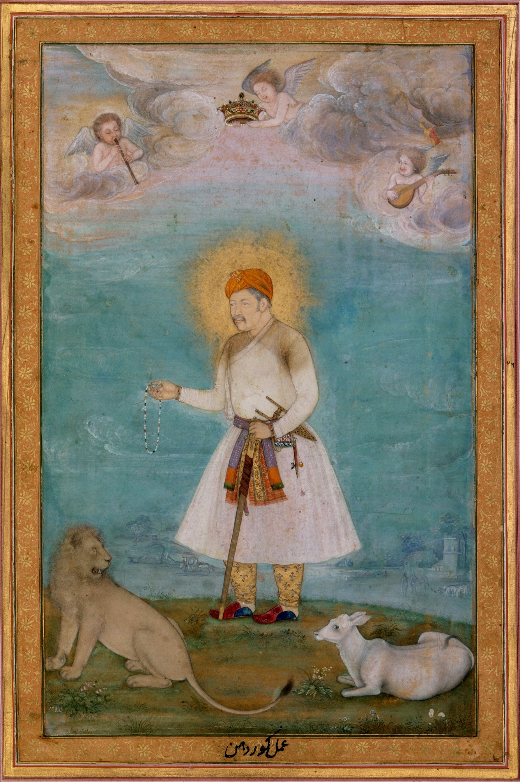 Govardhan. Akbar With Lion and Calf ca. 1630, Metmuseum